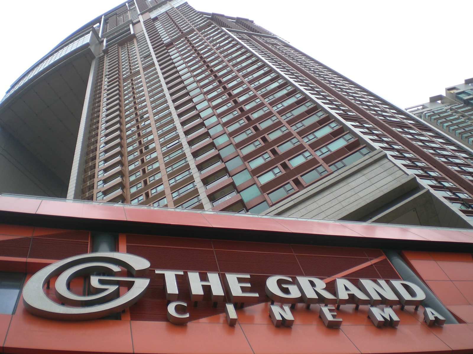 香港西九龍Union Square圓方電影院 The Grand Cinema, Elements, Hong Kong, West Kowloon, Kln